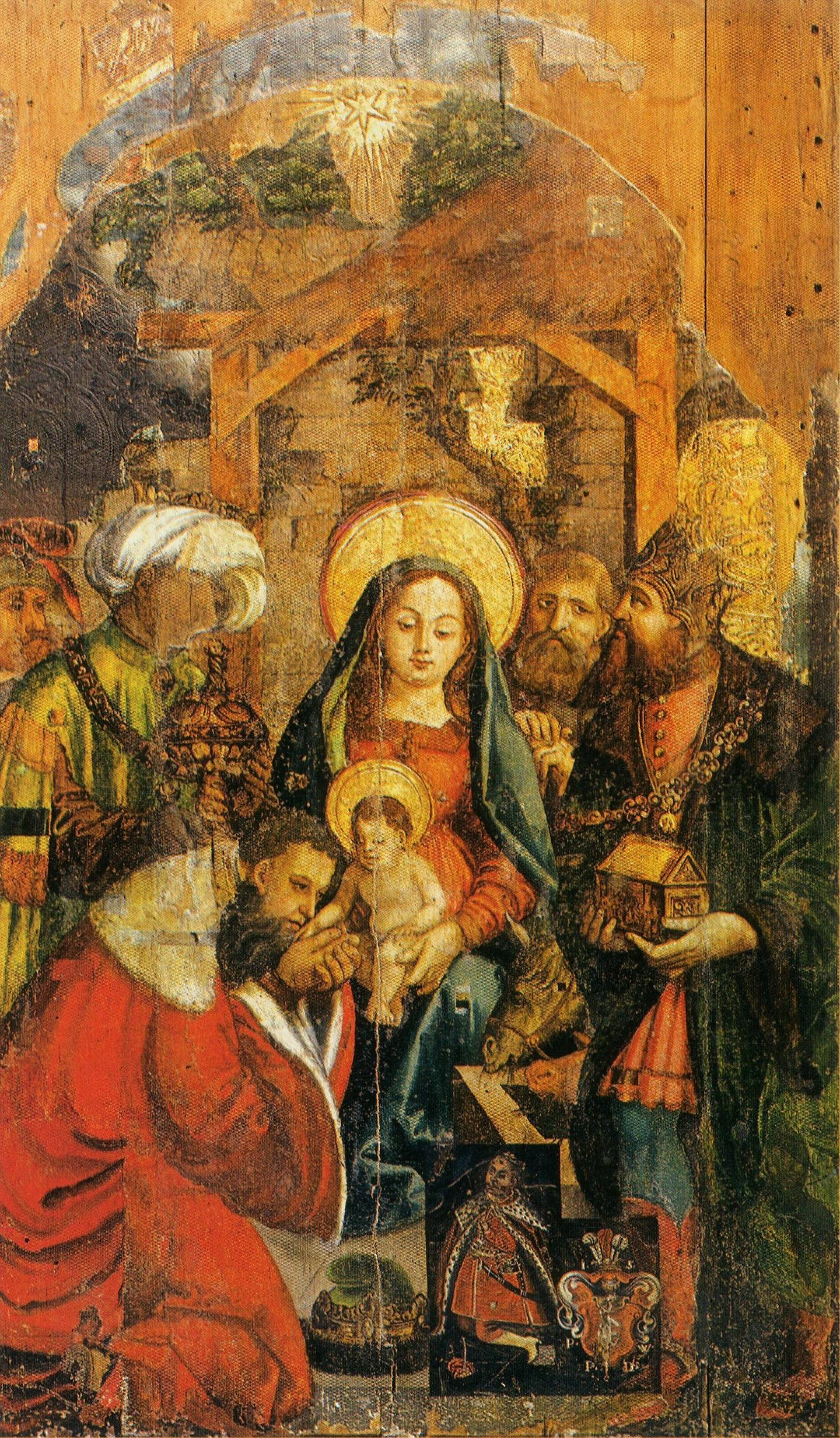 THE ADORATION OF THE MAGI. About 1514. Wood, tempera. 175x102x2,5. St. Paul and Peter's Catholic Church, Dryswiaty, Braslau district, Vitsiebsk region. Restoration - P. Zhurbey.